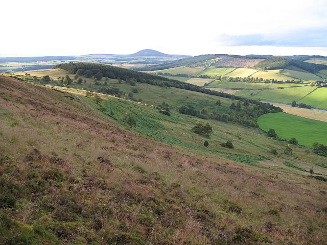 Northern slopes of the Fourman Rough slopes, grazed by cattle. Knock Hill in the distance.